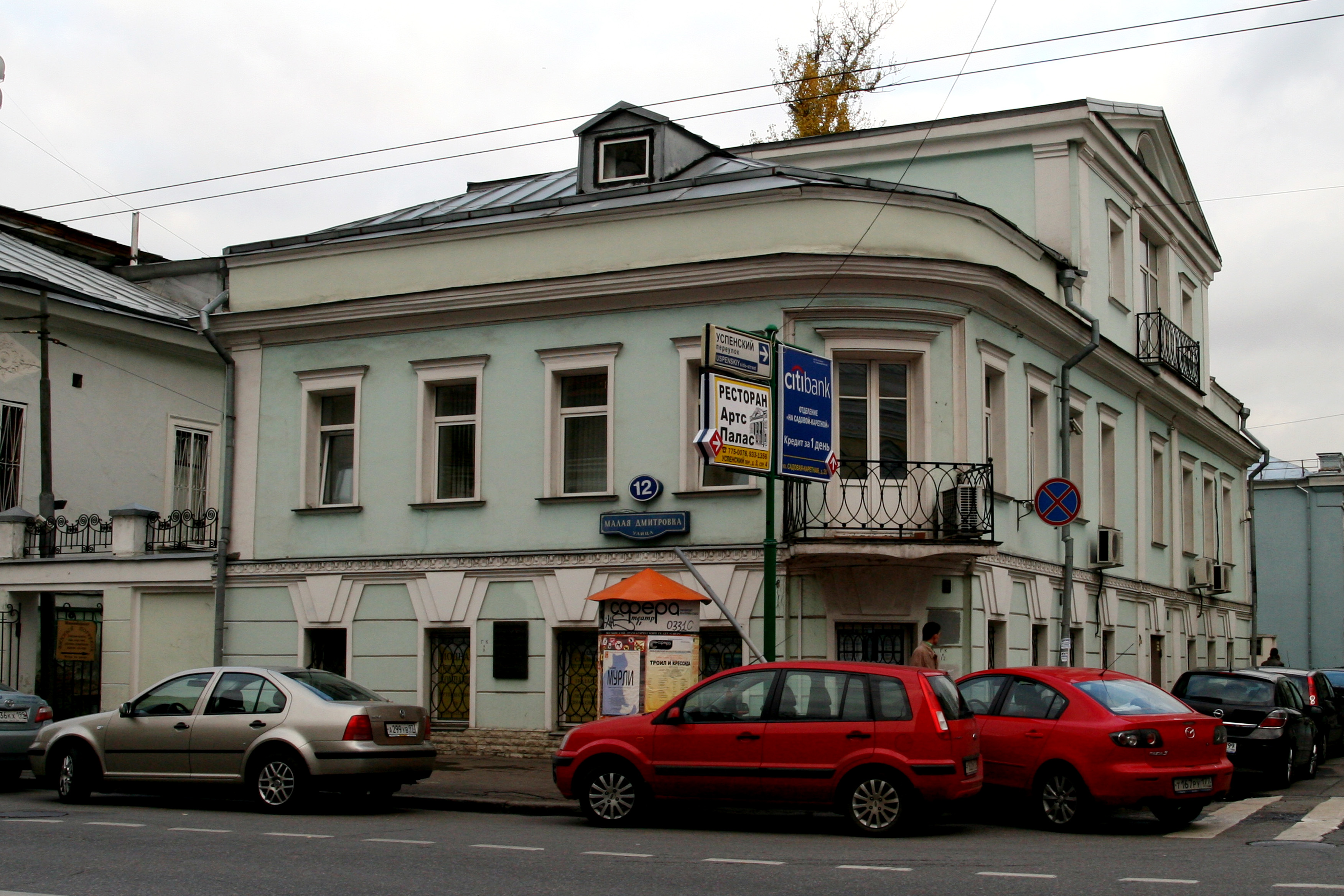 Moscow Malaya Dmitrovka Street 12